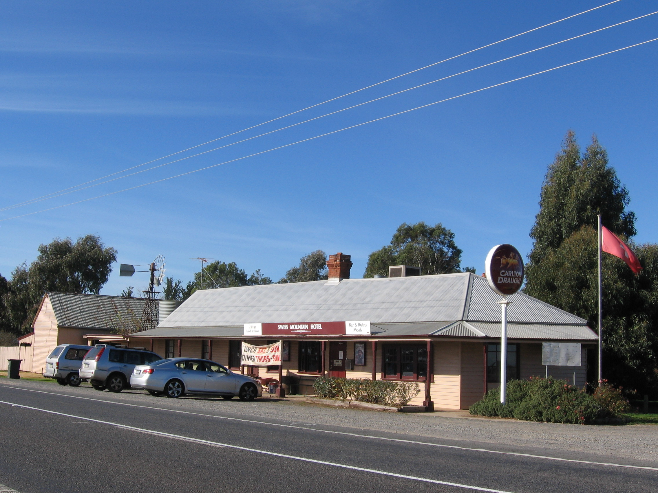 Swiss Mountain Hotel at Blampied, Victoria